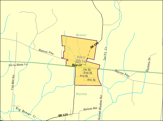 Map of Beaver, a village in Pike County, Ohio, United States, with its boundaries at the time of the 2000 census.